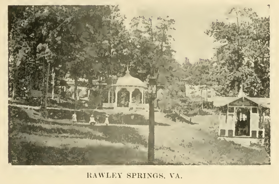 Photograph of Rawley Springs, Virginia, that appeared in Baltimore & Ohio Railroad Company's Book of the Royal Blue, April 1909, Vol. 12 No. 07, Page 15